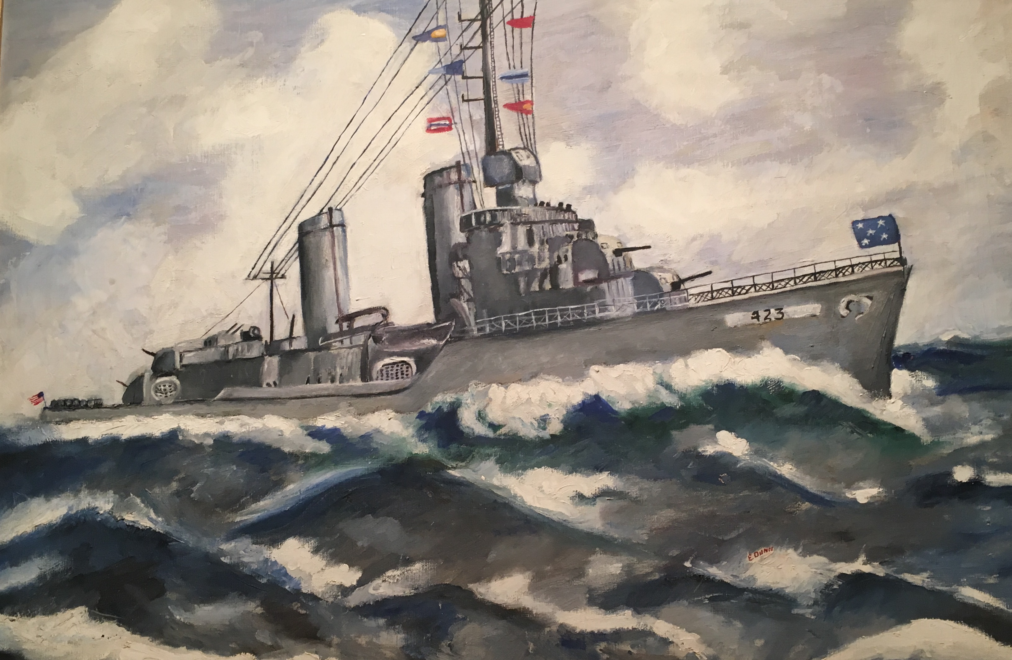 Oil painting of the Gleaves-class destroyer USS Gleaves